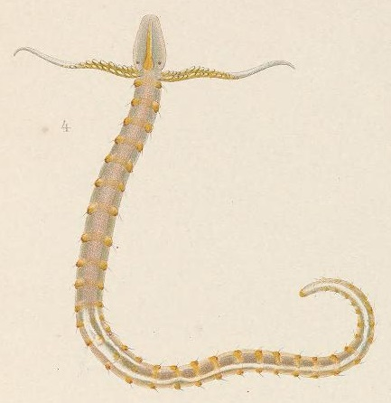 Magelona papillicornis J.F.T. Müller, 1858, A monograph of the British marine annelids, 1915, XCIII